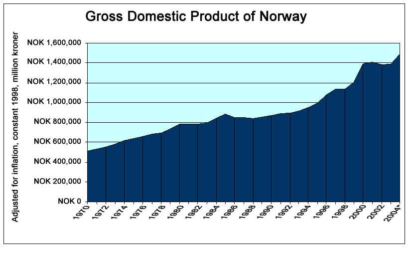 Gross domestic product of Norway, 1970-2004, adjusted for inflation. Derived from :Image:GDP Norway 1979 2004.JPG